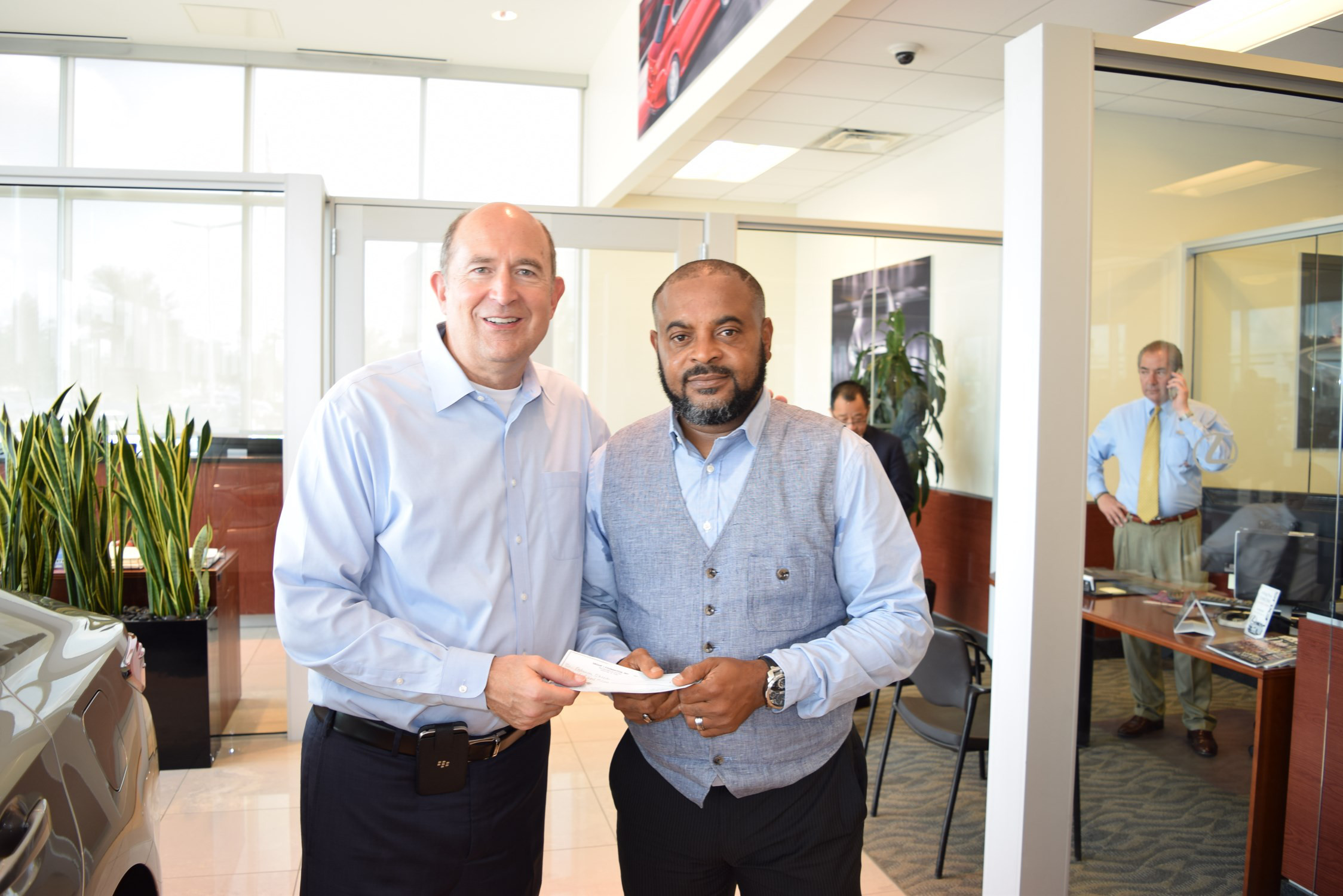 Group 1 CEO Earl Hesterberg delivers check to employee affected by Hurricane Harvey, September 2 2017